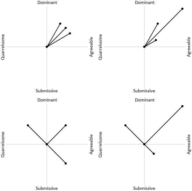 low spin, low pulse (upper left) low spin, high pulse (upper right) high spin, low pulse (lower left) high spin, high pulse (lower right) From: Debbie Moskowitz; David Zuroff (2004): 'Flux, Pulse, and Spin: Dynamic Additions to the Personality Lexicon' in Journal of Personality and Social Psychology, Volume 86, p. 880–893